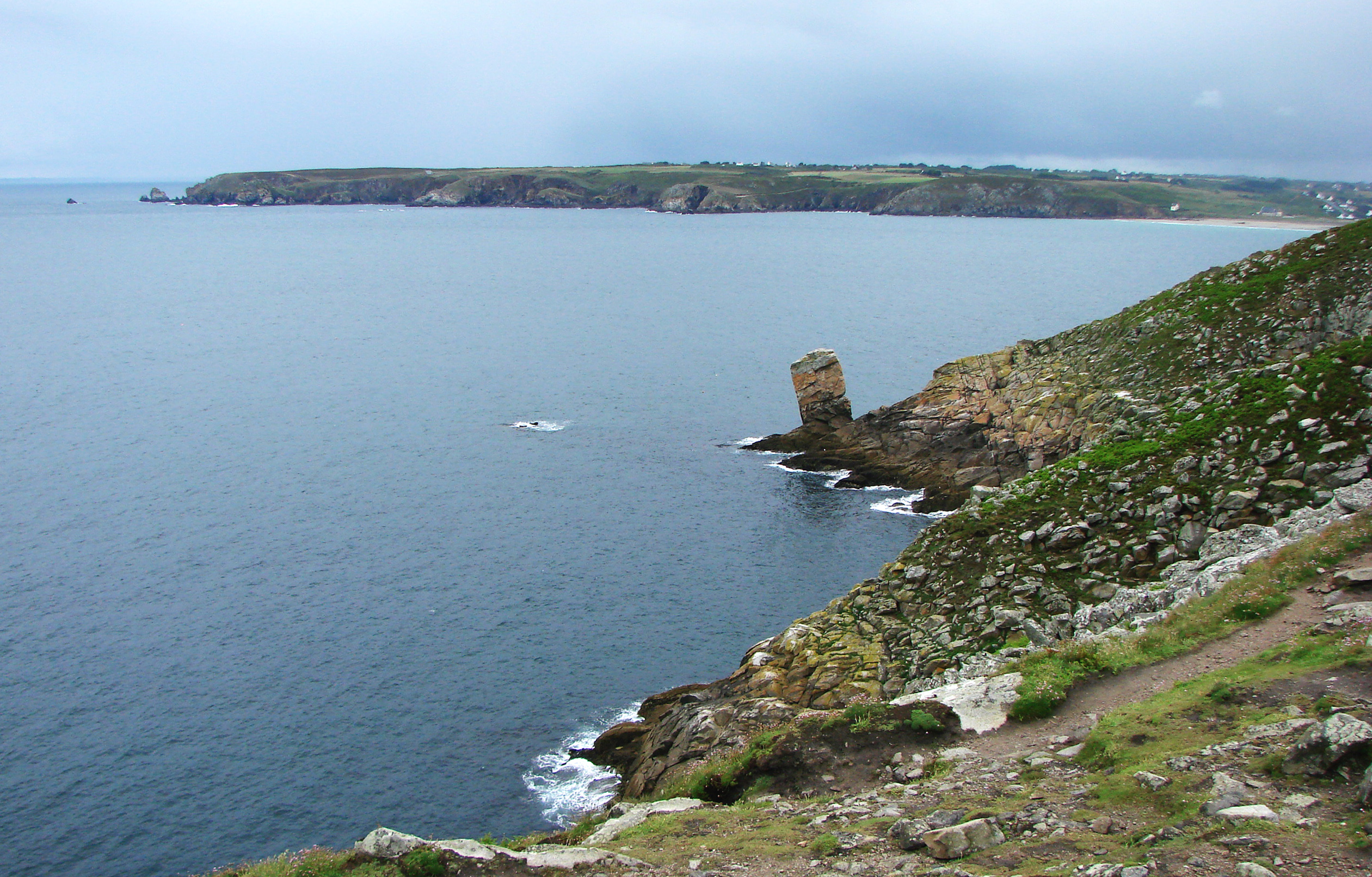 The Baie des Trépassés from the Pointe du Raz; Finistère, Brittany, France.